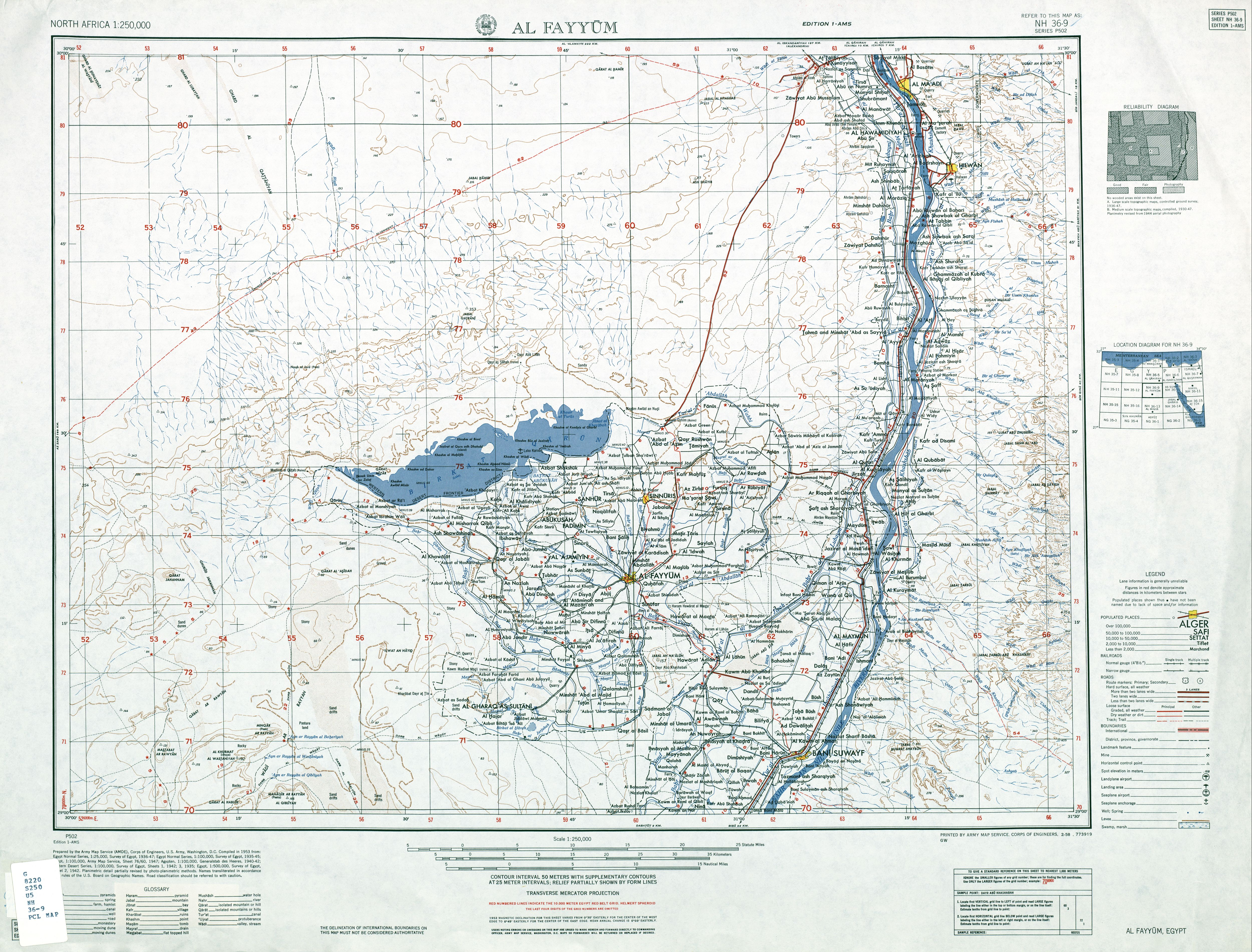 map sheet showing Fayyum Oasis, Egypt